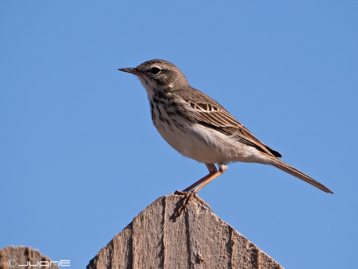 Bisbita caminero o de Berthelot (Anthus berthelotii)